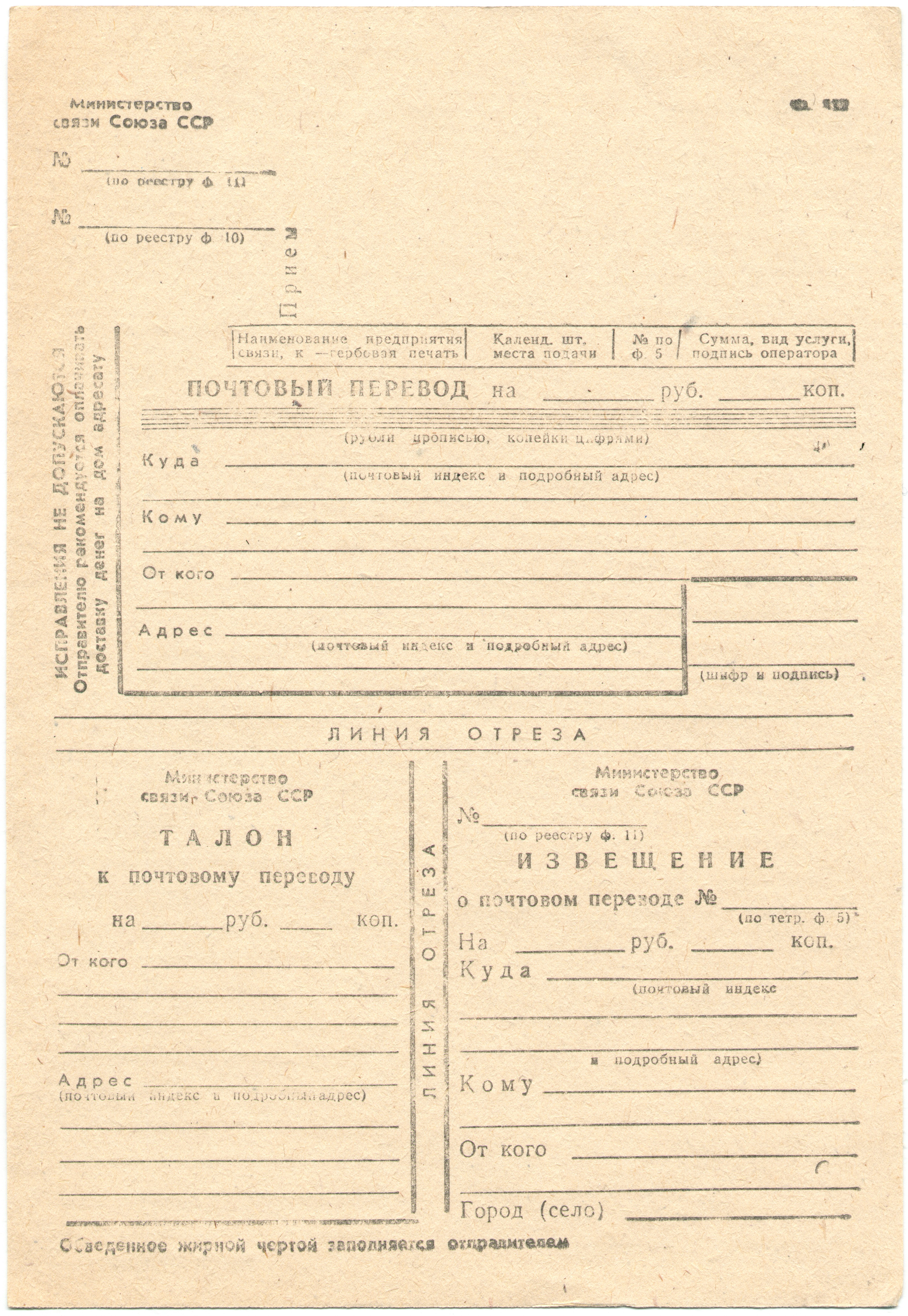 USSR Postal Money Transfer form, Form 112, front side, 1990s.